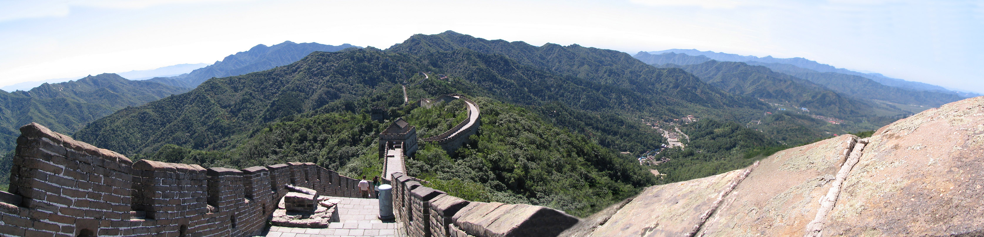 The Great Wall of China at Mutianyu